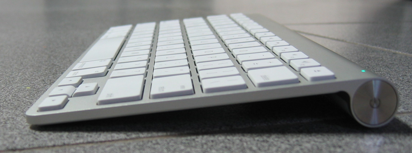 Apple Wireless Keyboard - second generation, aluminum slim profile - side view